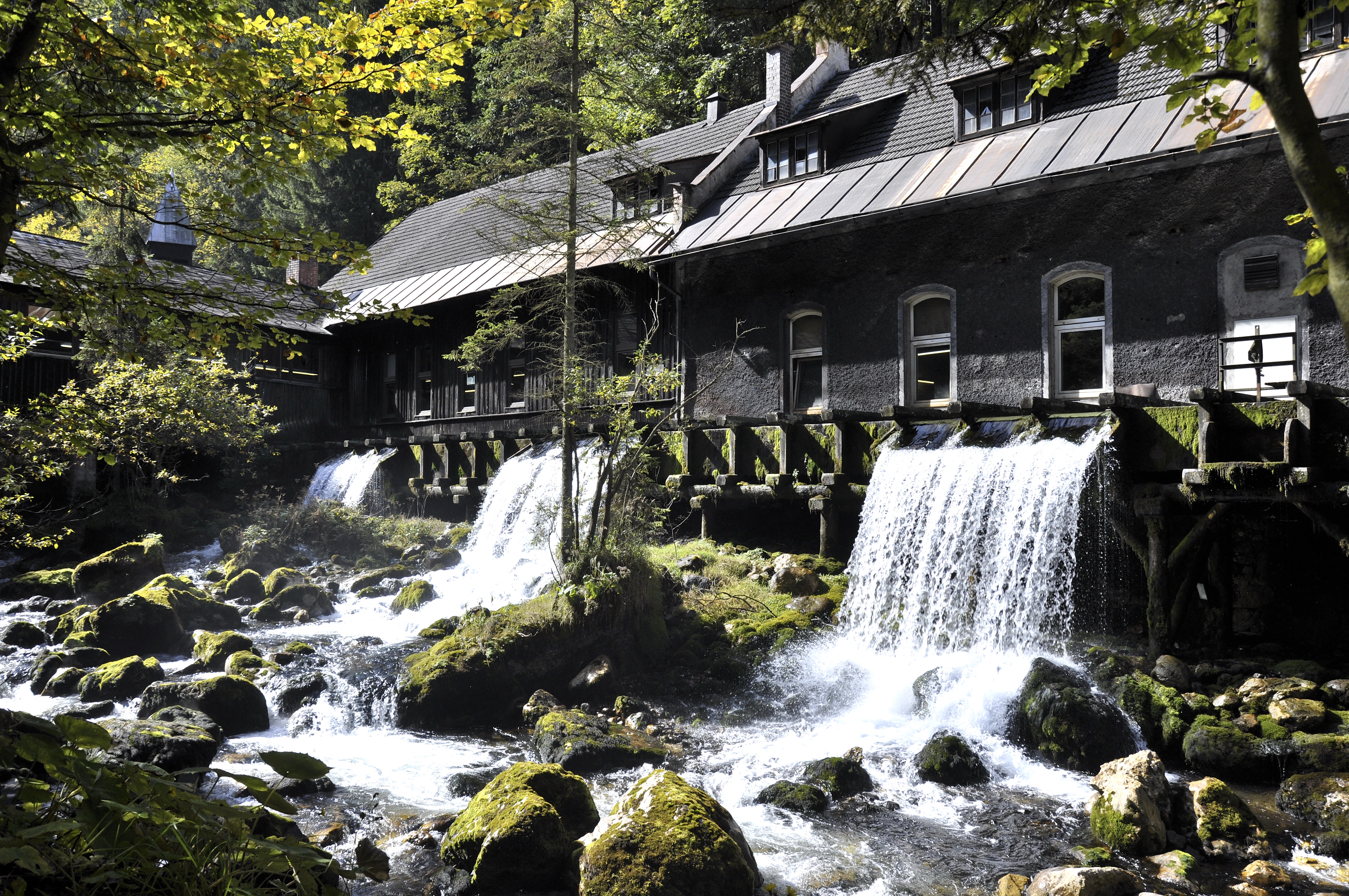 The scythe factory Franz de Paul Schröckenfuchs was established in 1540 and is one of the oldest industrial enterprises of Austria